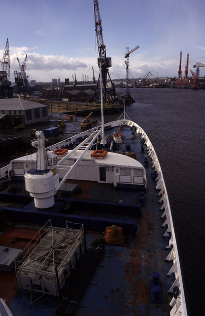 The Tyne at Hebburn The Tyne still looking industrial. I'm on the starboard bridge wing of Big Red Boat II (Ex Eugenio Costa) alongside the Cammell Laird yard. The ship was broken at Alang - a sad but inevitable end for the former Italian greyhound.